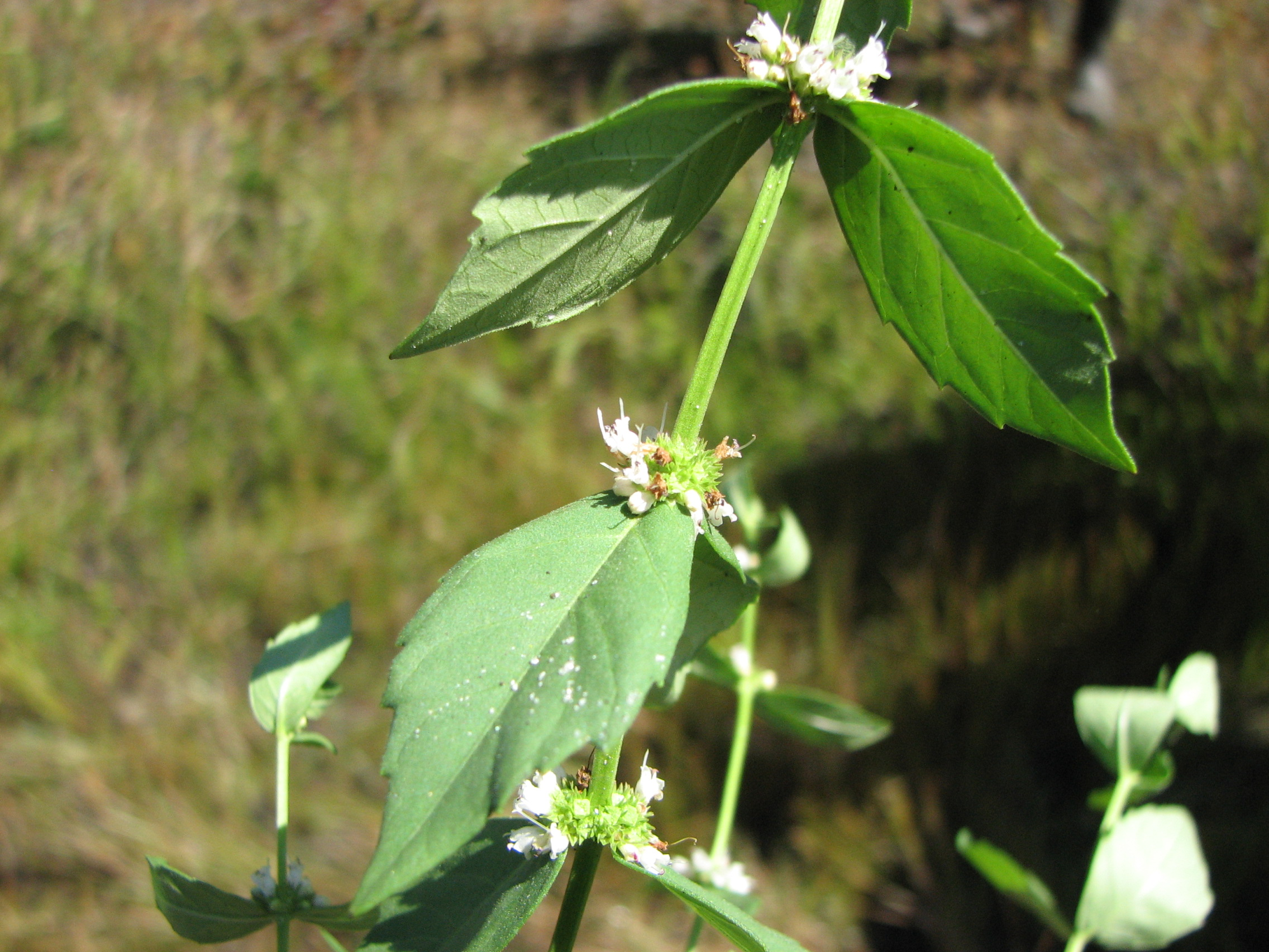 Lycopus amplectens, in the New Jersey Pine Barrens.